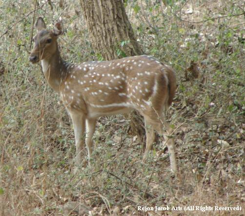 own work - picture taken on 10th march 07